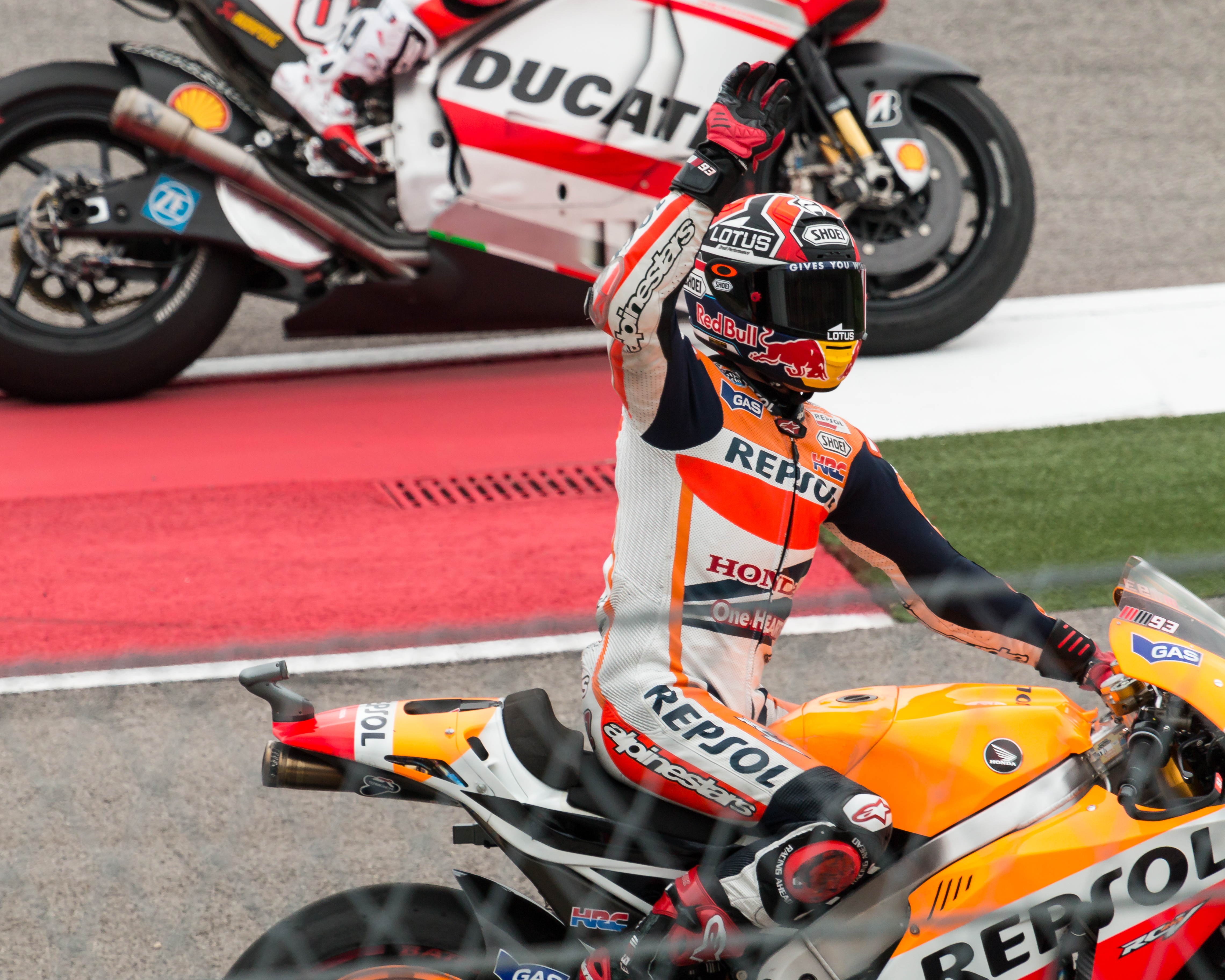 Marc Marquez waves to the crowd after winning the MotoGP Grand Prix of the Americas in Austin, Texas